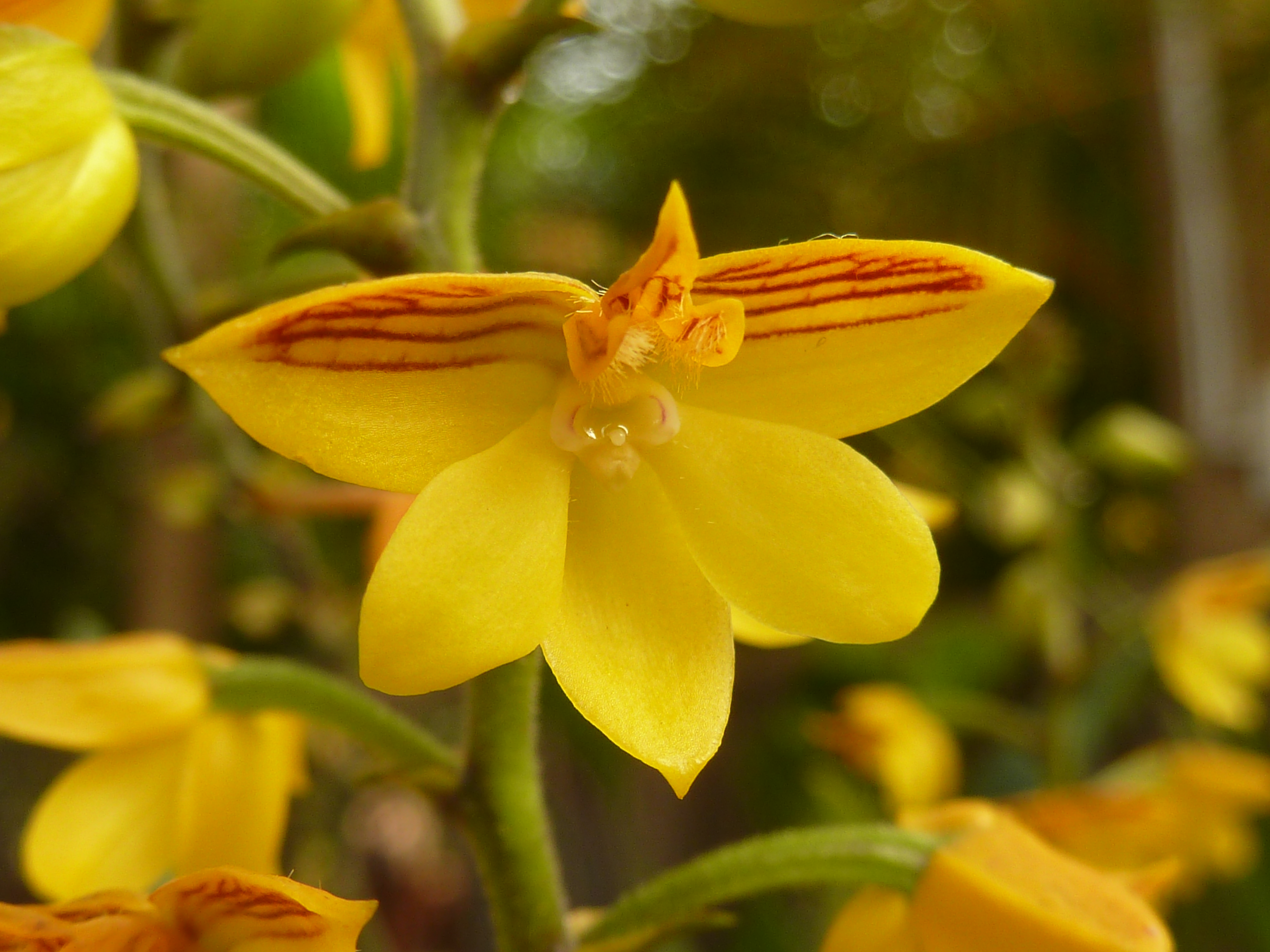 Flower of a Hairy-lipped polystachya at an orchid exhibition held at Safari Garden Centre in Pretoria